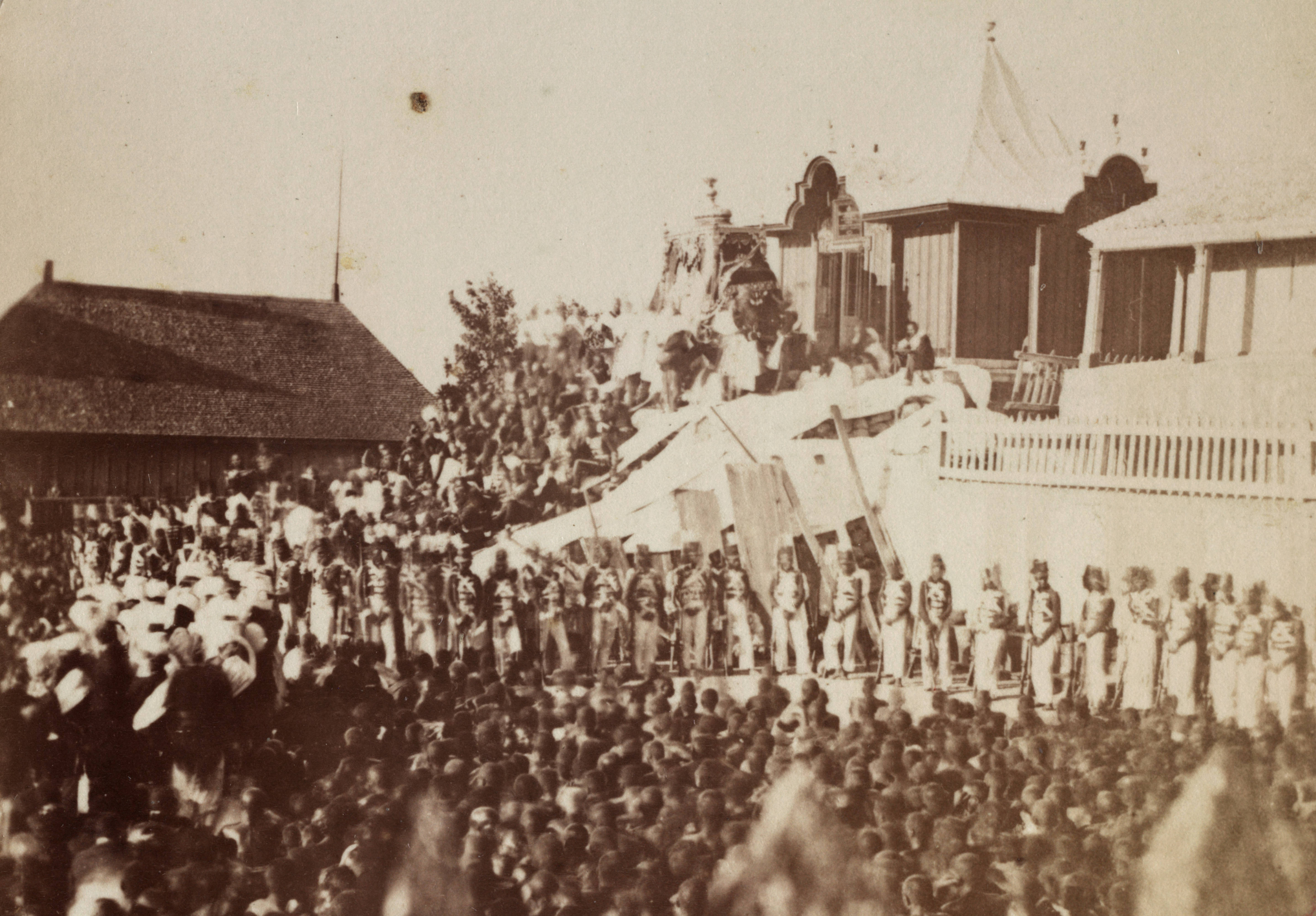 Funeral of Queen Rasoherina of Madagascar